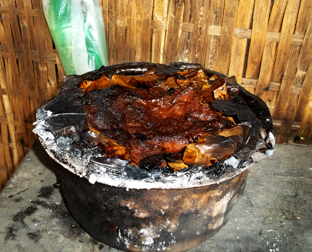 Chenapoda, a traditional Odia dessert made of cottage cheese and rice flour. and one among Chapana bhoga, the 56 bhogas offered to Jagannatha.